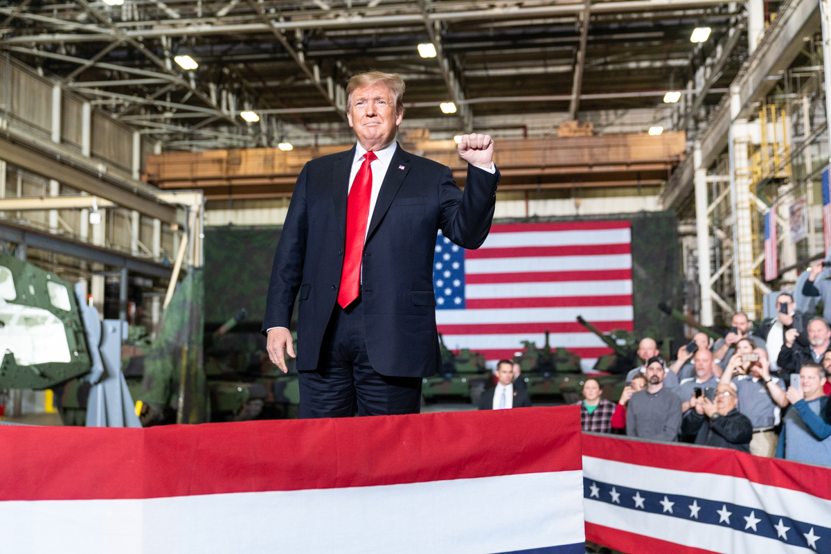 President Donald J. Trump arrives on stage to address employees at the Army Tank Plant Wednesday, March 20, 2019, at the Joint Systems Manufacturing Center in Lima, Ohio. (Official White House Photo by Shealah Craighead)